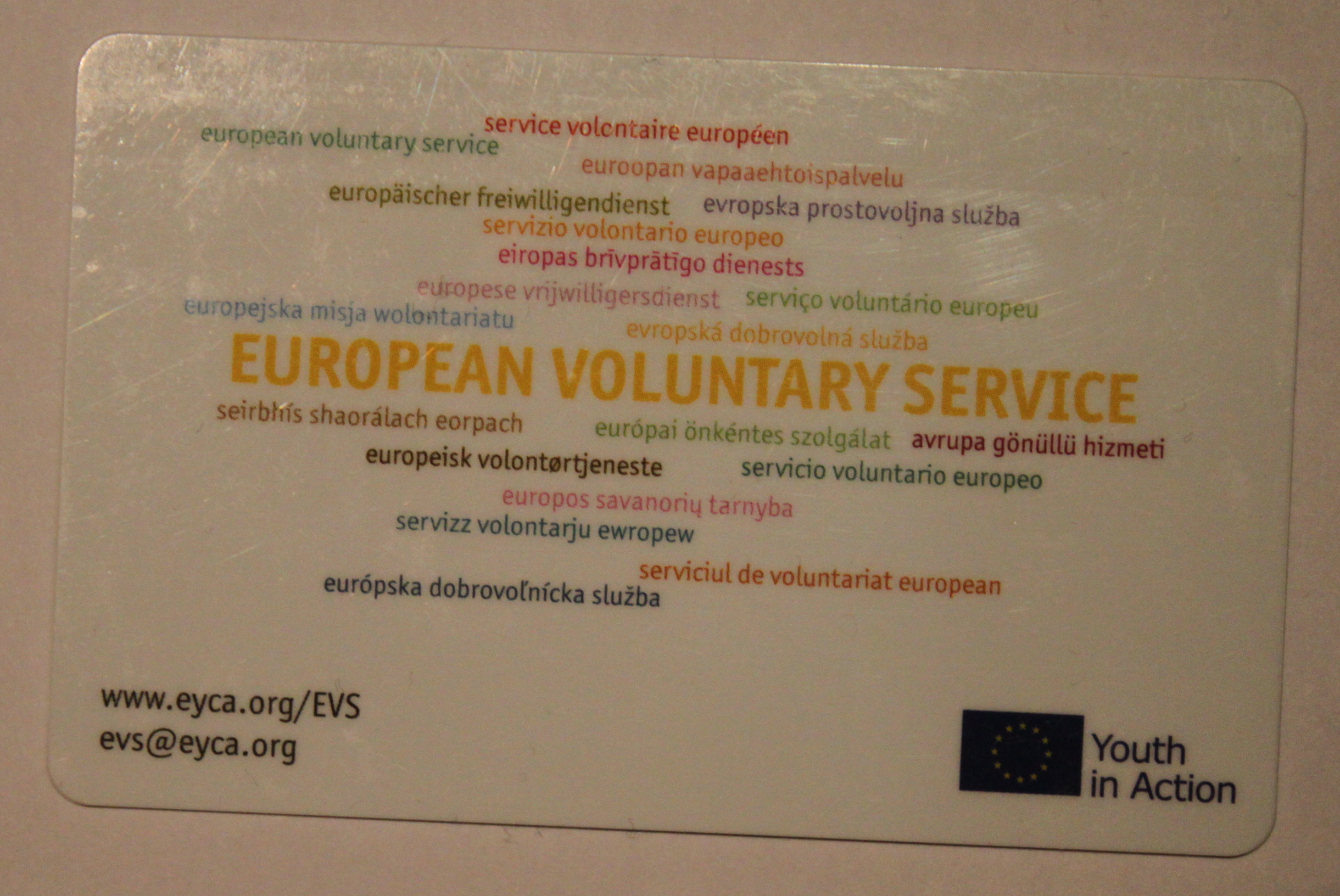 The back of a European Youth Card of an EVS volunteer.